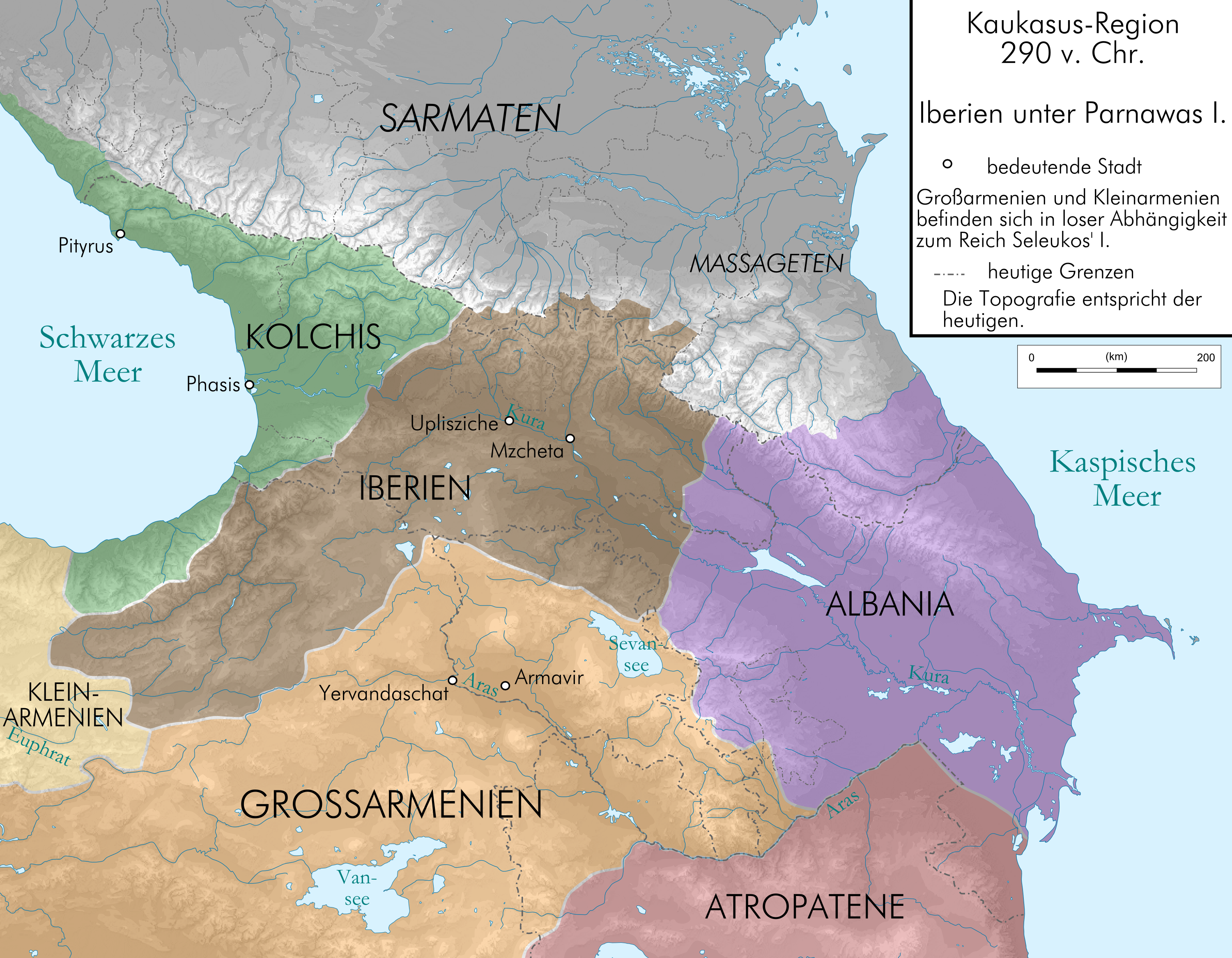 Map of Caucasus Region around 290 BD in German.